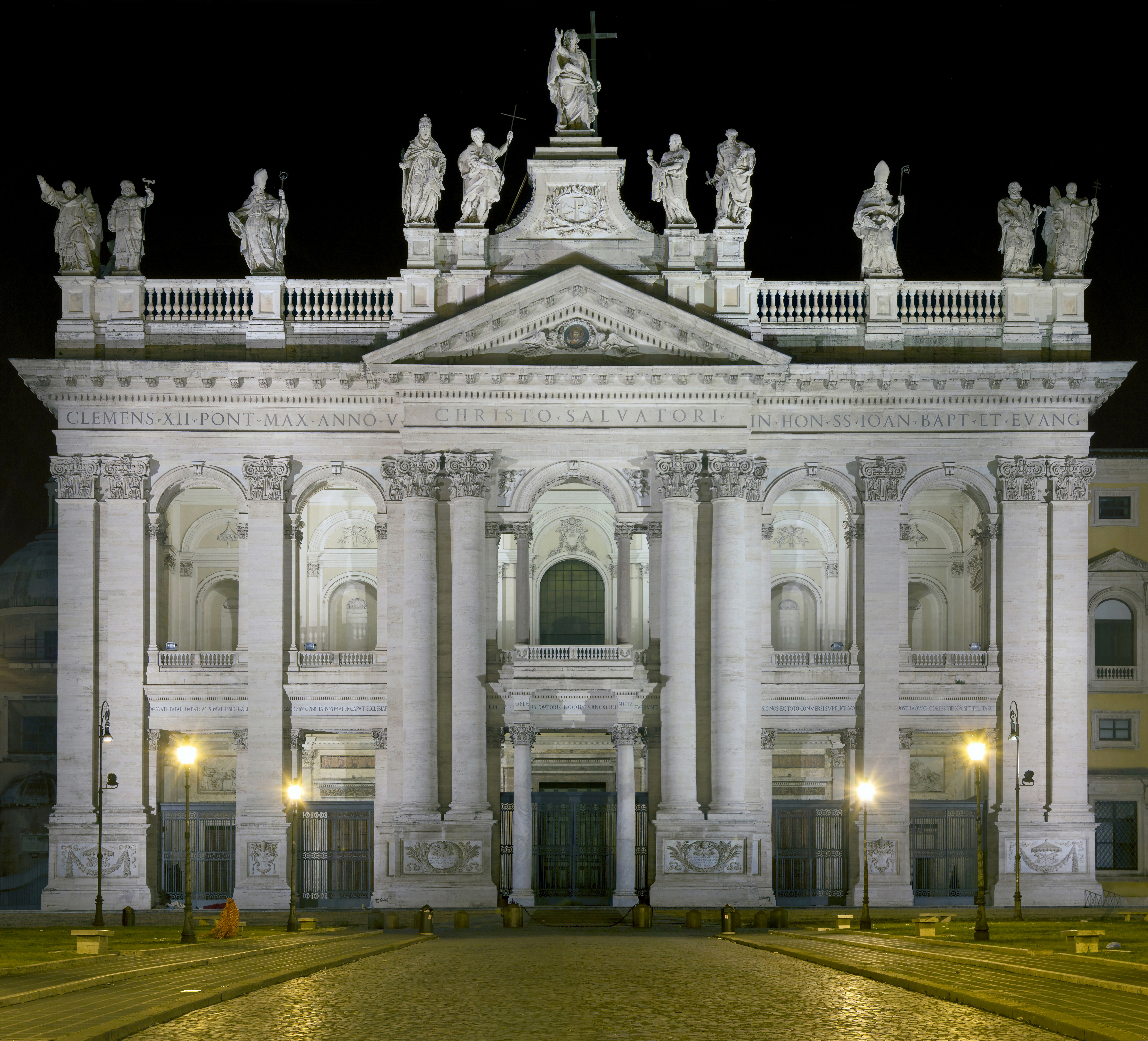 Archbasilica of St. John Lateran HD